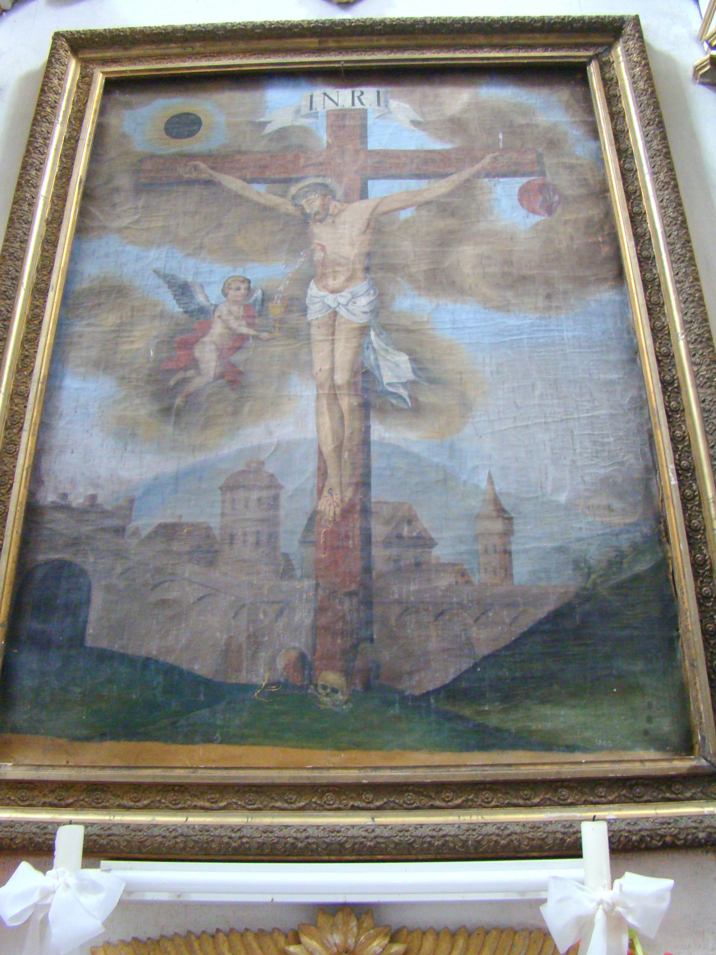 Lutheran church in Hălmeag, Brașov County, Romania